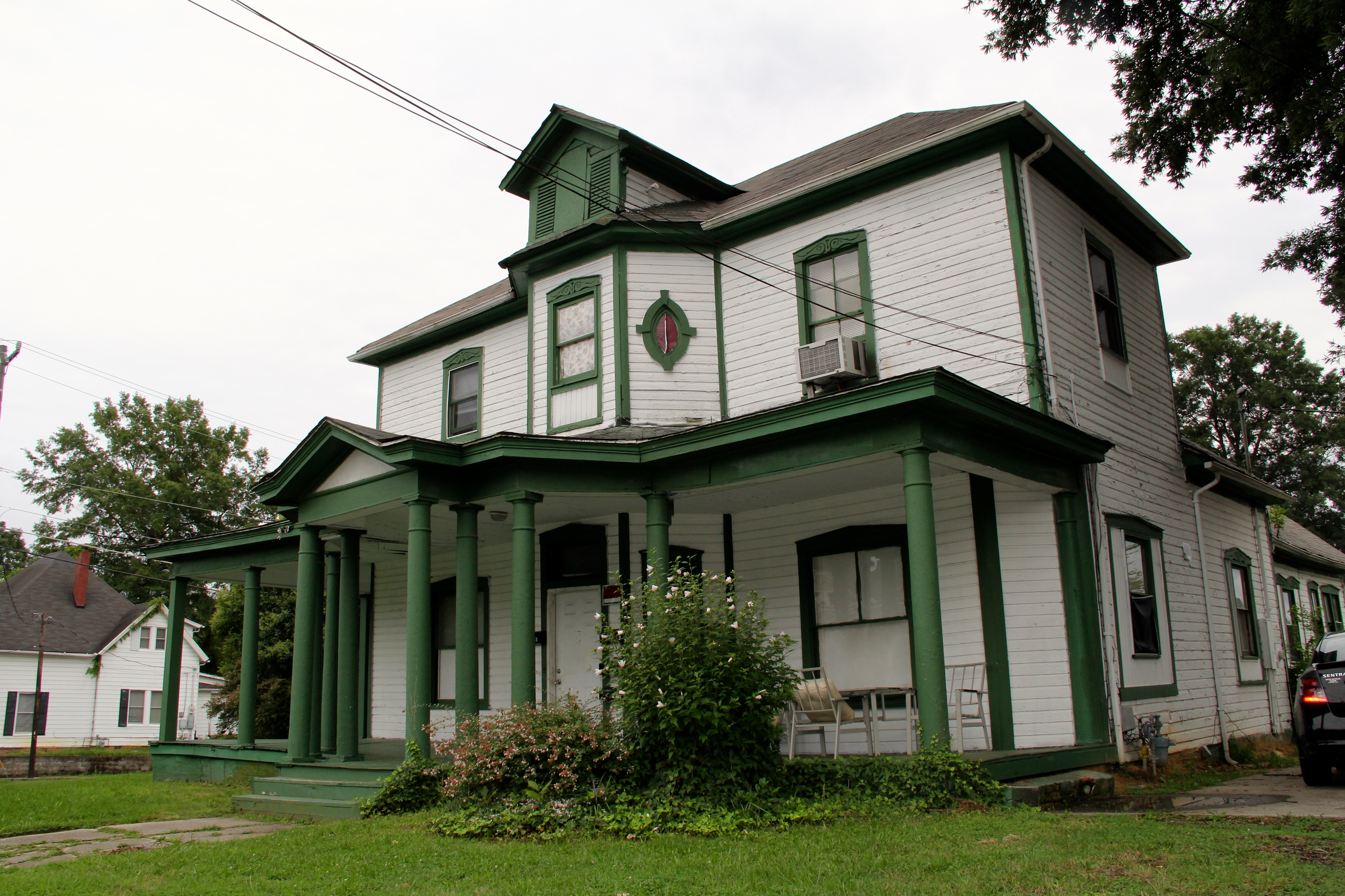 Holloway Street Historic District - White wooden house with green trim - Durham, North Carolina. Photo taken as part of Wikimedia Summer of Monuments camping trip 2014. This image was uploaded as part of Wikipedia Summer of Monuments. English |+/−